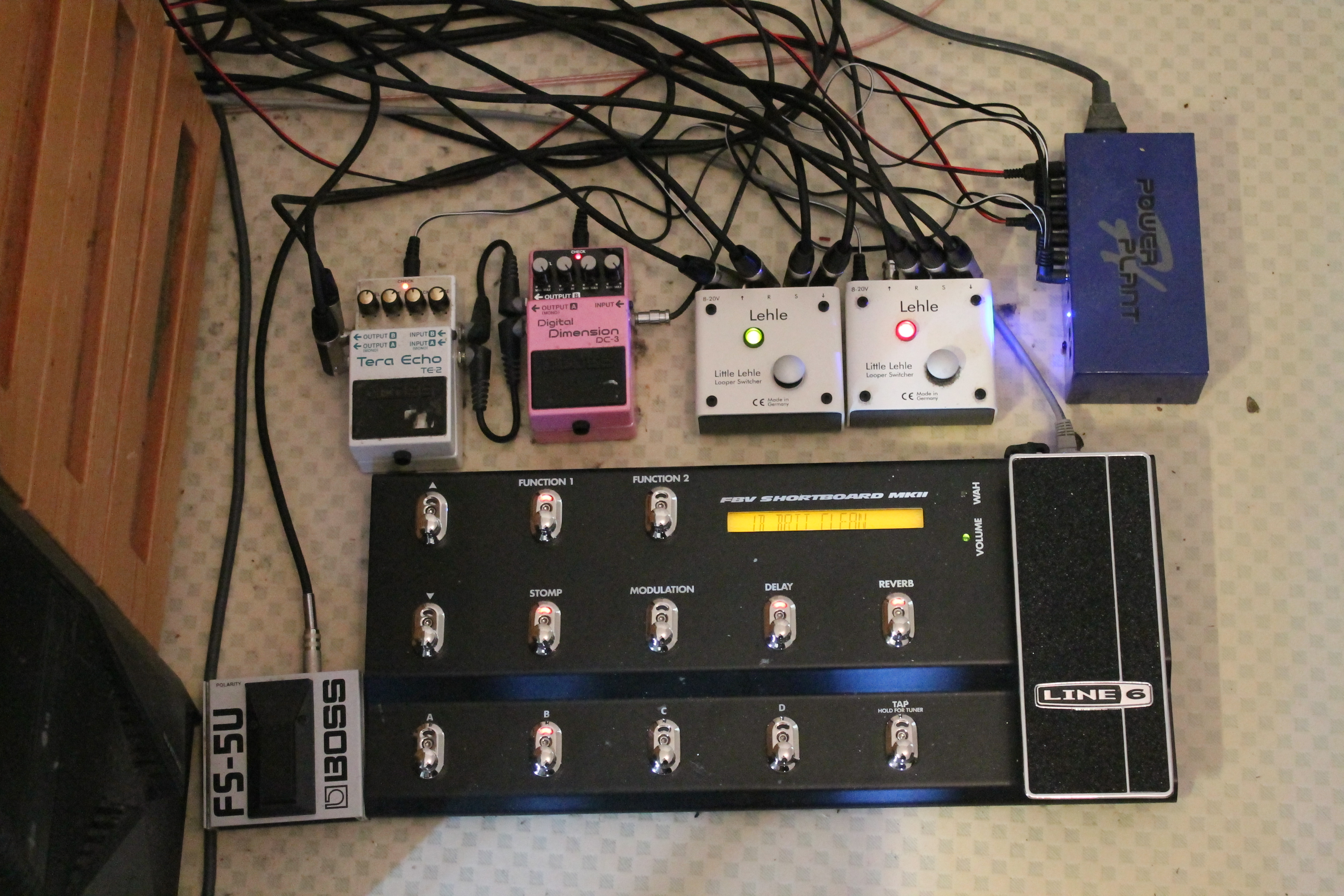 Pedalboard: (abowe) from left to right: BOSS TE-2 Tera Echo, BOSS DC-3 Digital Dimension, Lehle Little Lehle II, power source for pedals Below: Line6 FBV Shortboard MK II